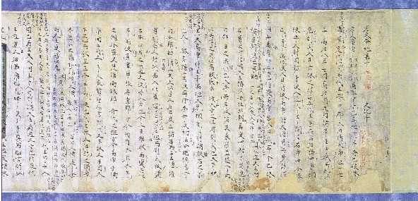 Records of the Grand Historian (史記, shiki) vol. 10 of the Imperial Biographies (本紀): Chronicle of Emperor Wen of Han Dynasty. Transcription; oldest manuscript of the shiki; handed down in the Ōe family. One scroll, ink on paper, 28.5 × 972.7 cm (11.2 × 383.0 in). Located at Tohoku University, Sendai, Miyagi.